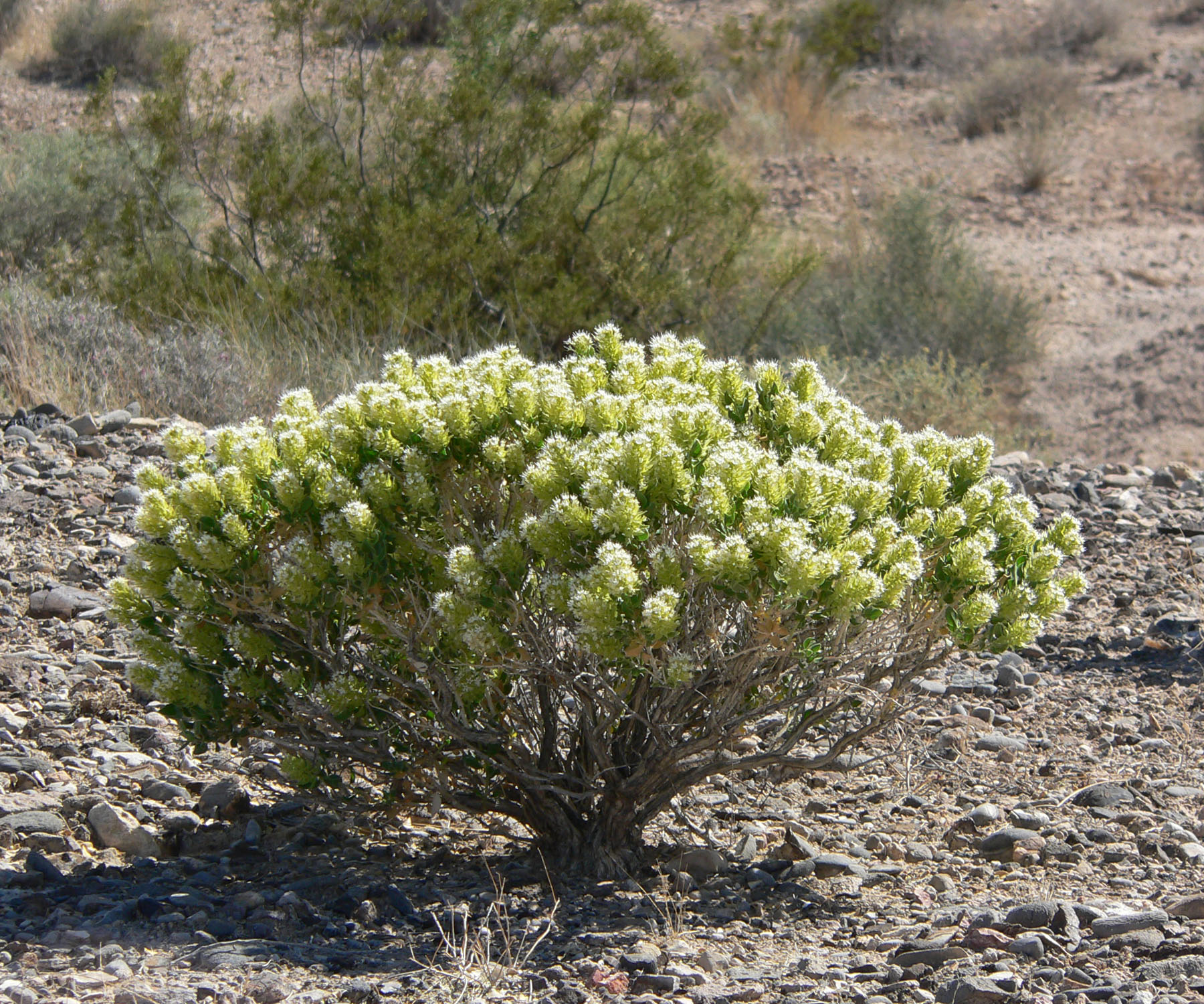 Petalonyx parryi near the Hidden Valley Road south of Moapa, close to Interstate 15 exit 88, southern Nevada